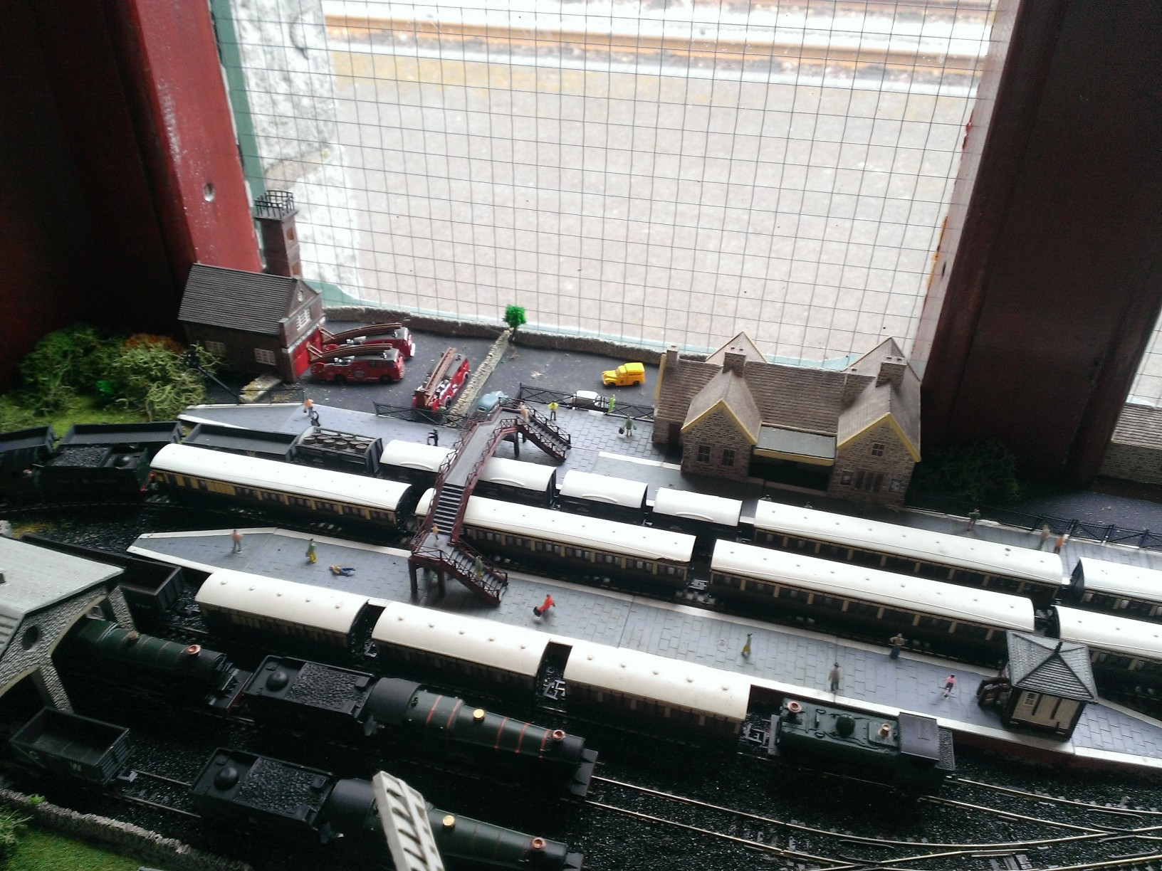 N gauge model at Castletown Railway Station, Isle of Man